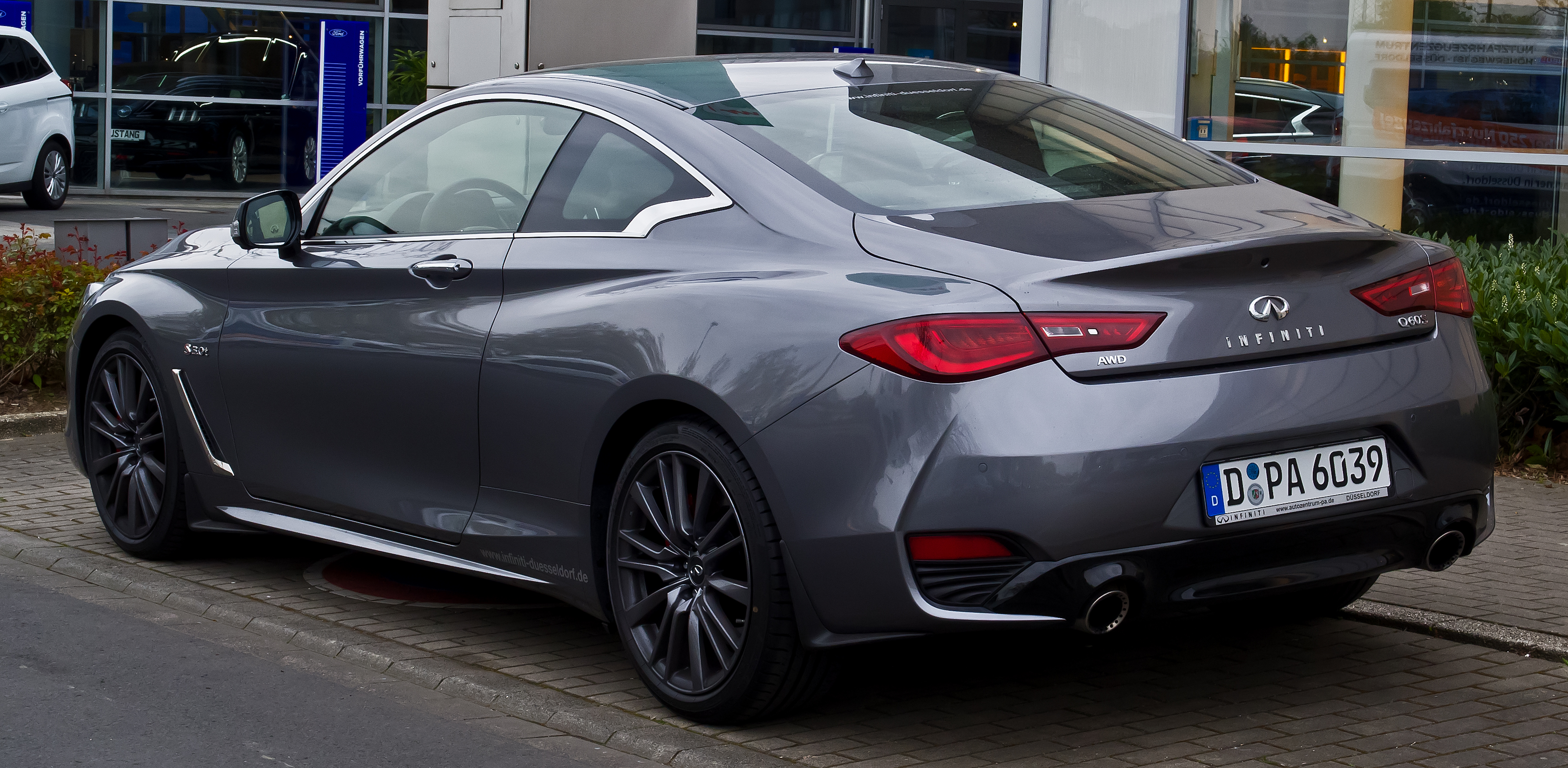 Infiniti Q60S 3.0t AWD Sport Tech (V37)